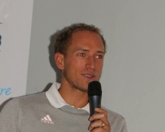 Emmanuel Dyen, French yacht racer.